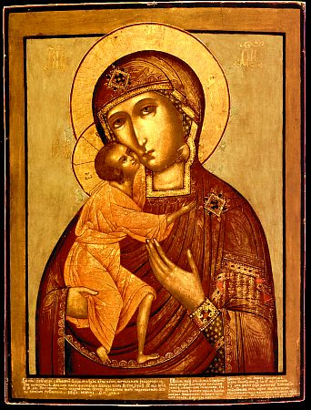 Our Lady of St Theodore (10th century), 18th Century copy of the holy protectress of Kostroma, following the same Byzantine "Tender Mercy" type